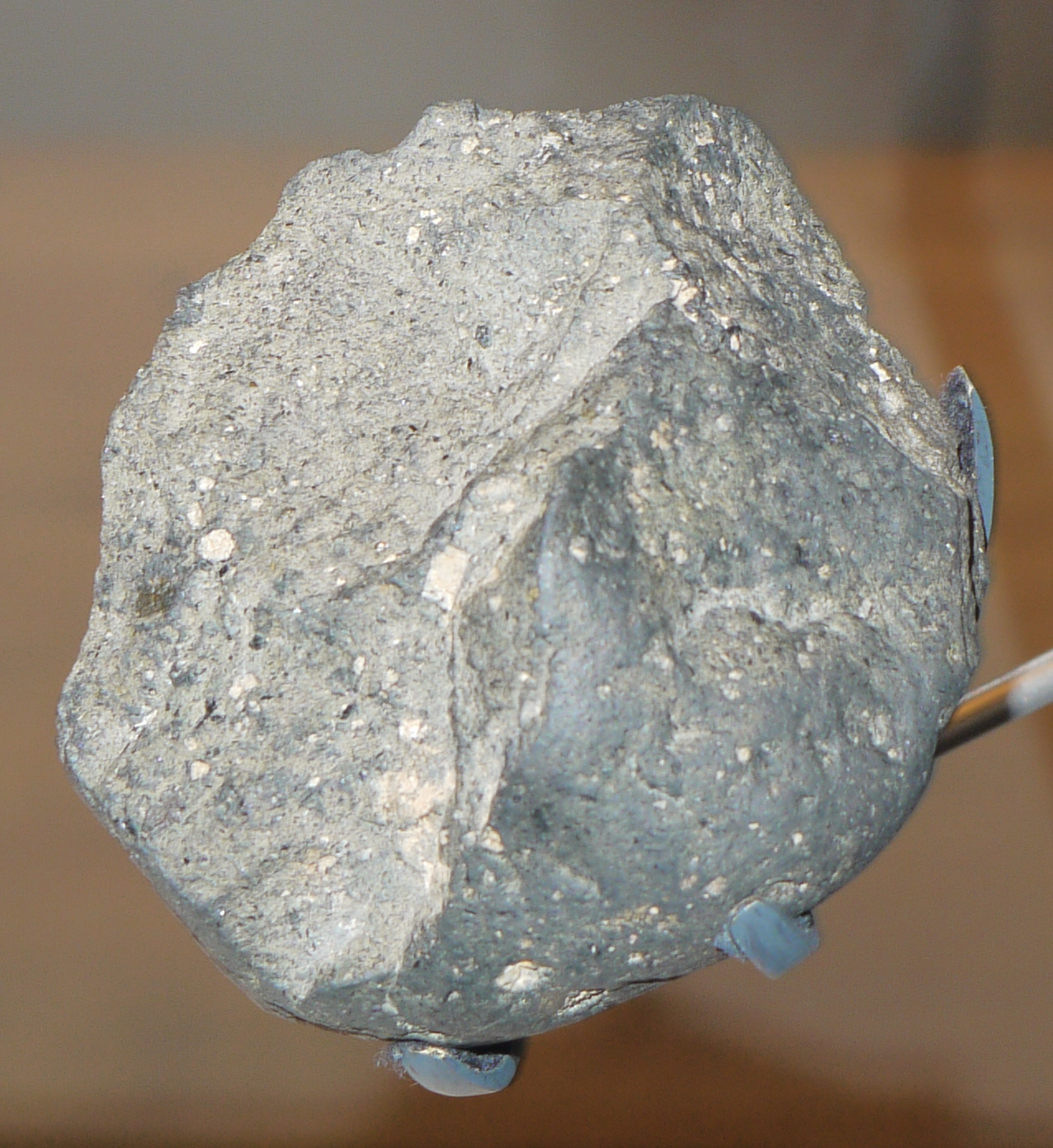 Photo of a chopping tool from Olduvai Gorge 1.8-2 million years old